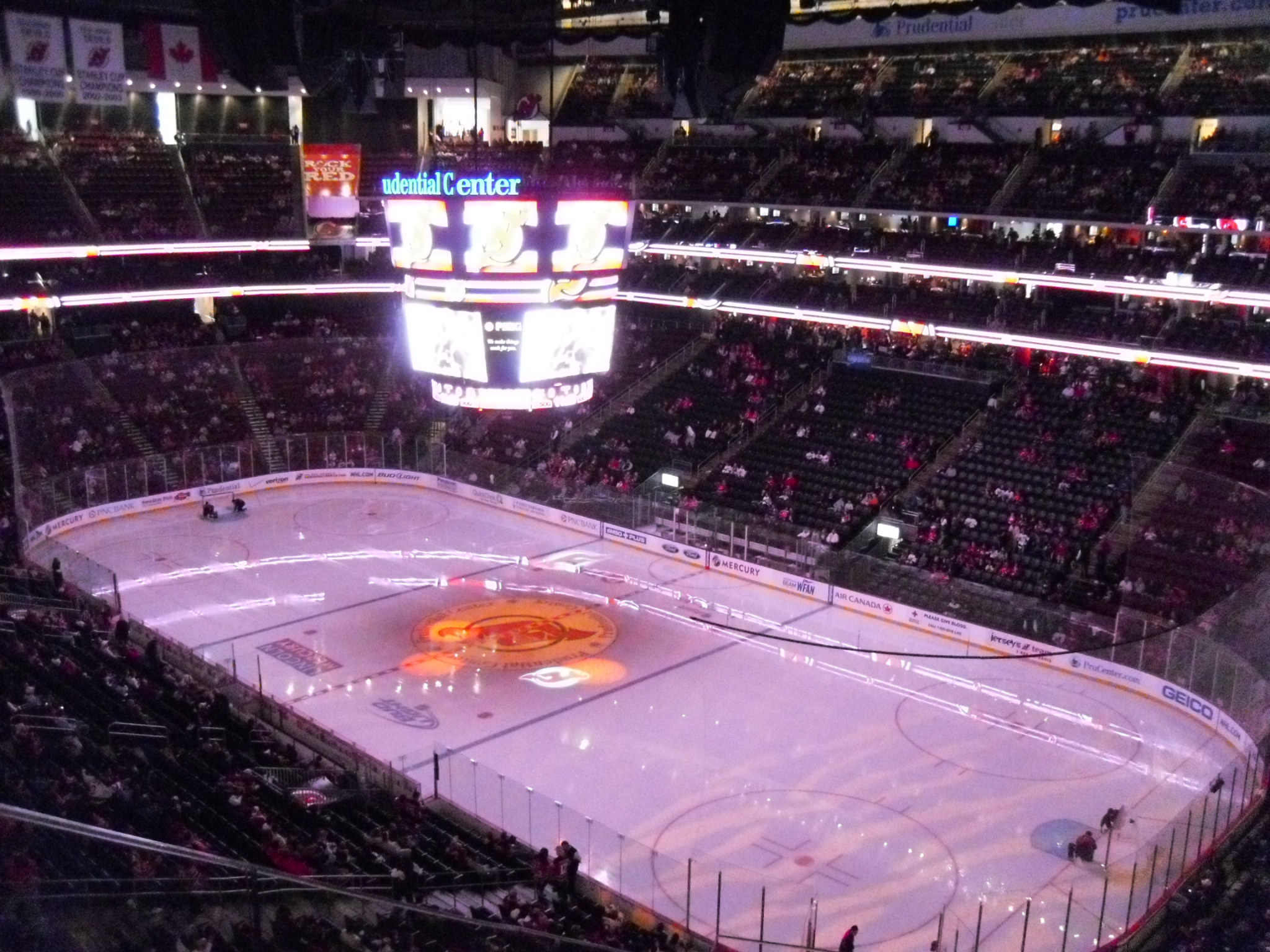 New York Islanders vs. New Jersey Devils - April 10, 2010